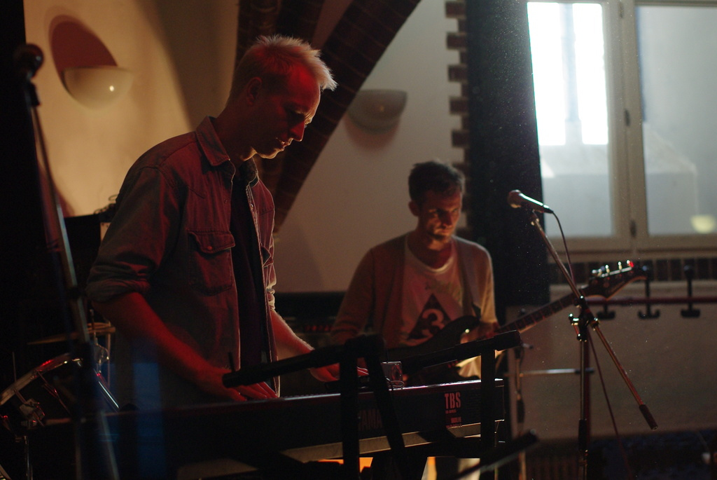 The Embassy, live at Indie Pop Days / Wasserturm Kreuzberg / Berlin / 5th September 2010